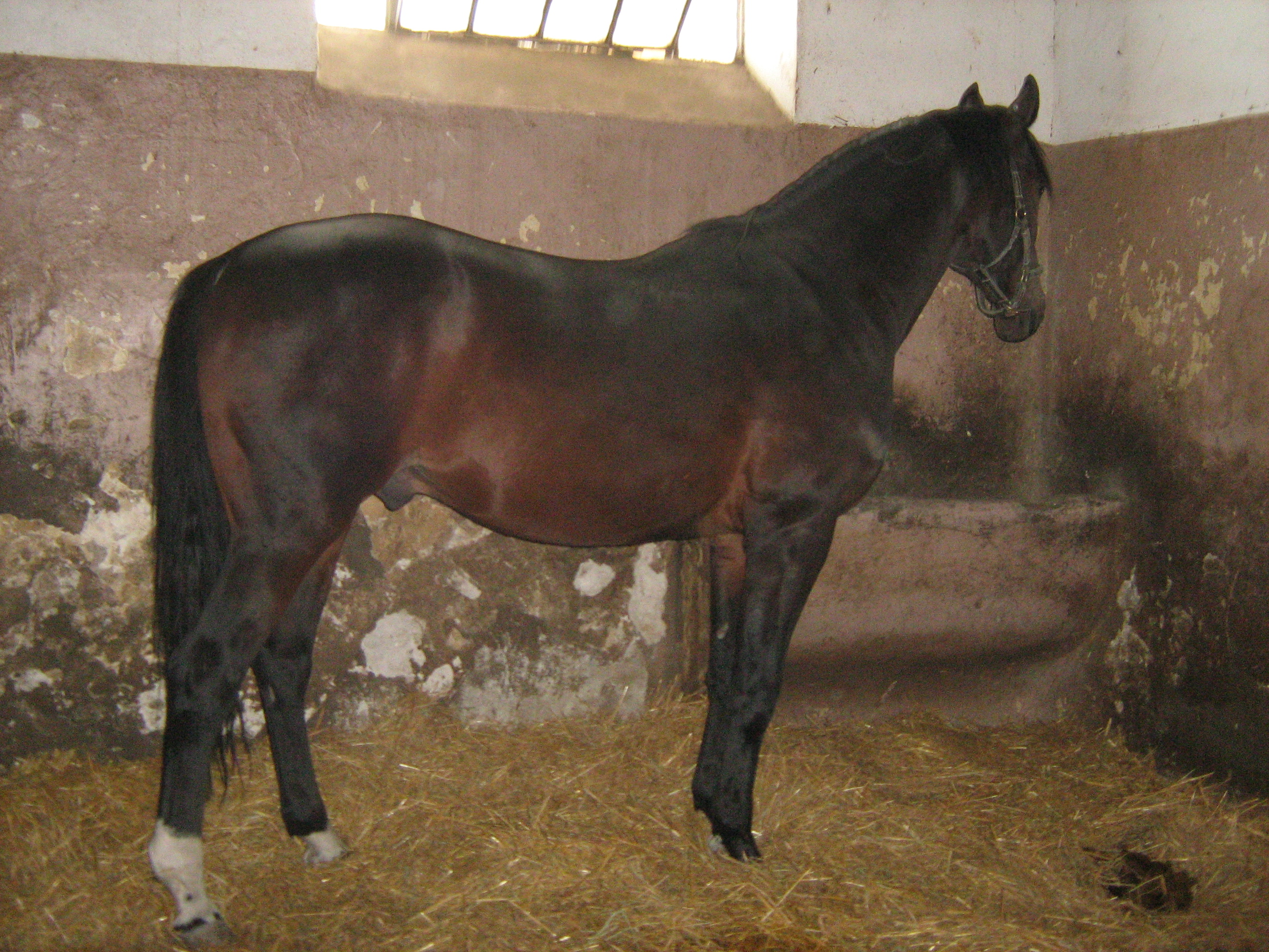 East Bulgarian